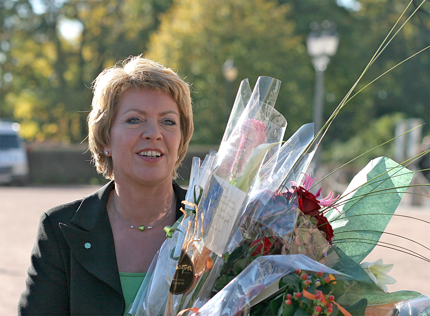 Åslaug Haga, Norwegian Minister of Local Government and Regional Development